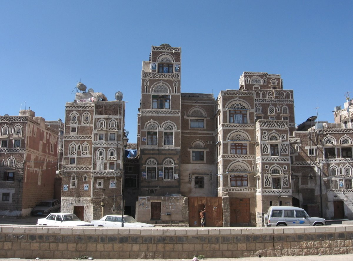 Sana'a: just in front to the hotel Arabia Felix where we stayed just a couple of days before leaving for the mountains trips200612_yemen-5